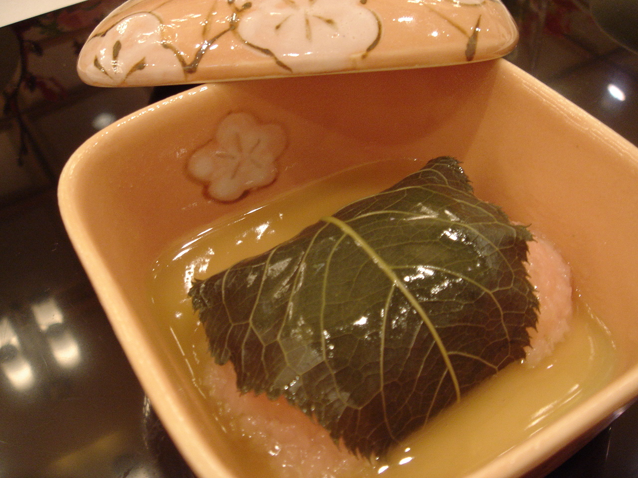 dishes from japanese traditional wedding ceremony